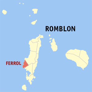 Map of Romblon showing the location of Ferrol